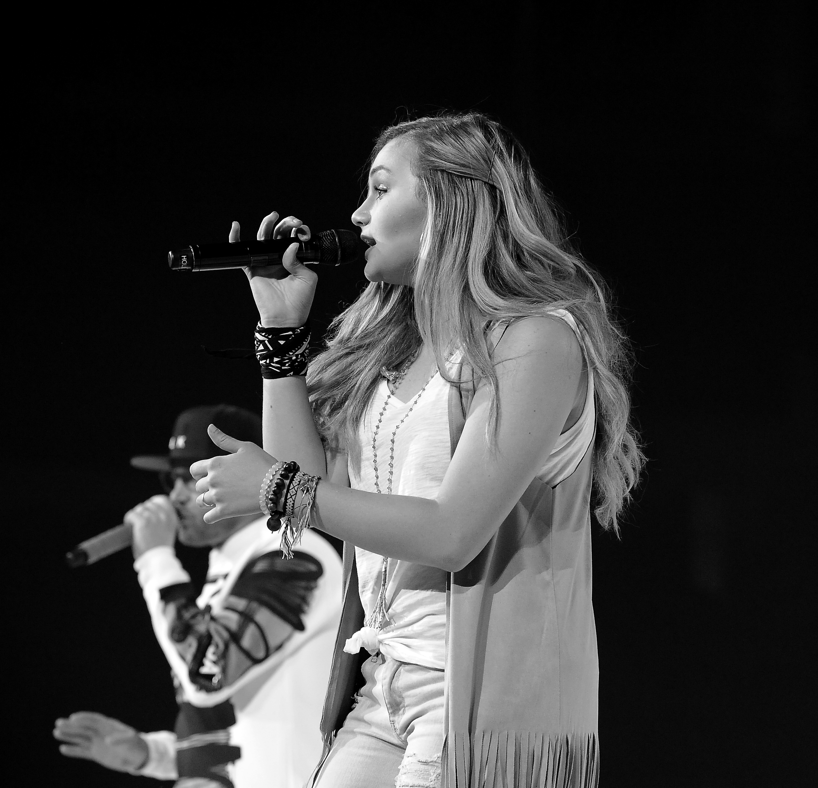 Hollyn on April 9, 2016 performing at the TobyMac Hits Deep Tour in Milwaukee, Wisconsin during a show at the Panther Arena. This image was used by and for The Journal/Sentinel and taken by photographer Michael McLoone.